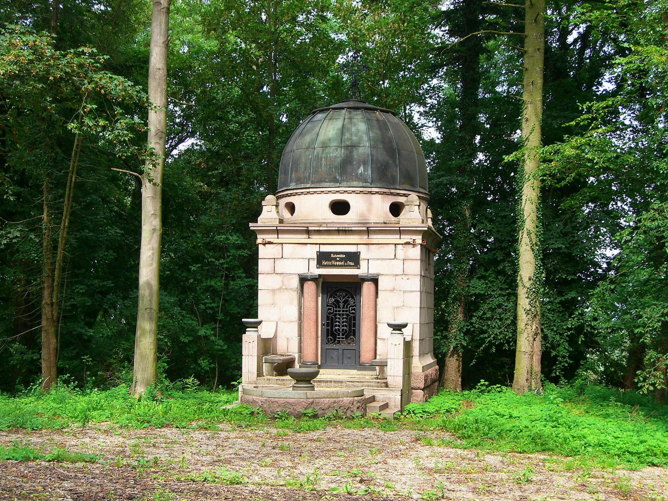 Mausoleum Heinrich Wessel in Pohnstorf near Teterow